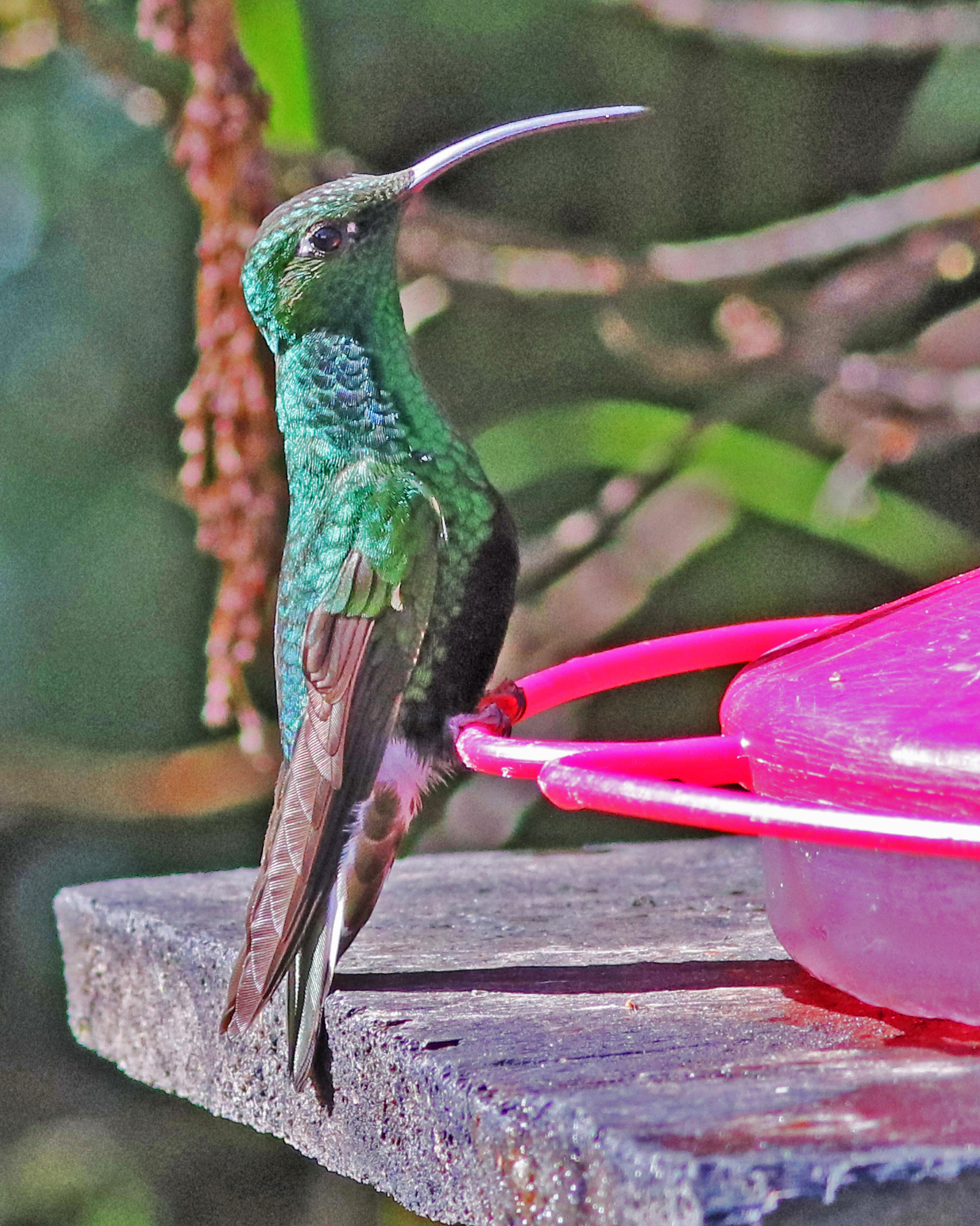 Mountain Velvetbreast hummingbird taken at he Yanococha Ecological Reserve in northern Ecuador